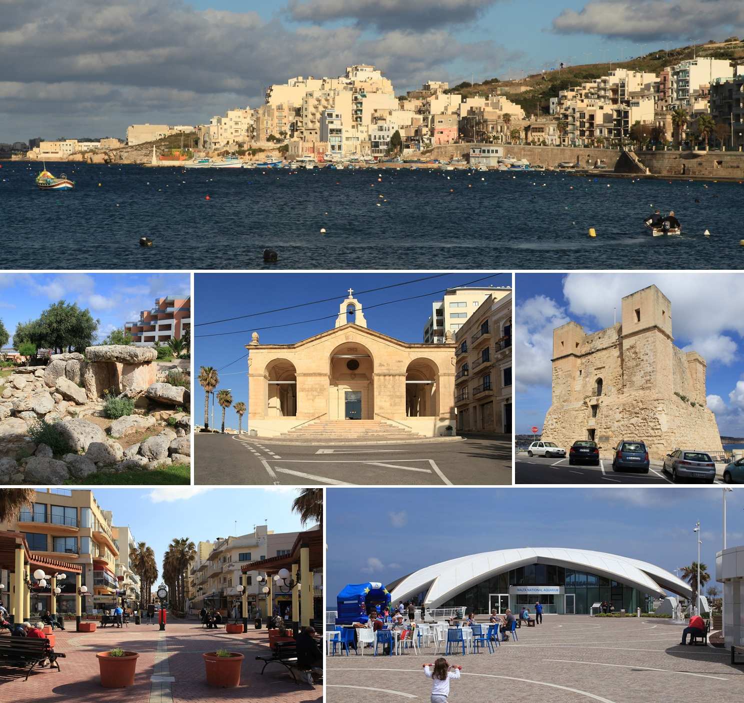 Montage of various landmarks in St. Paul's Bay, Malta